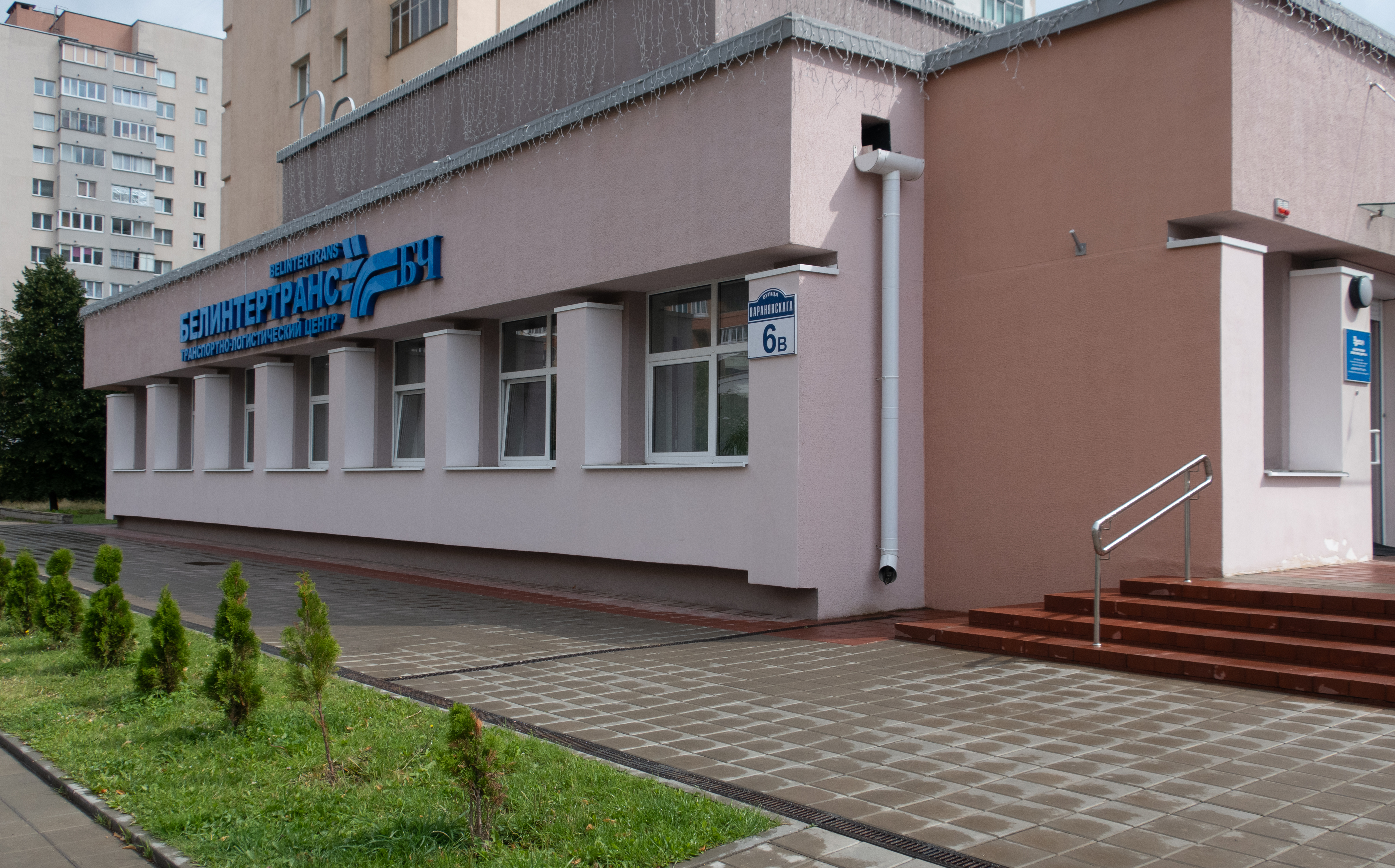 Varanianskaha street (Minsk, Belarus)